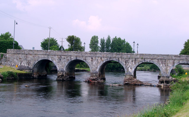 The River Moy at Foxford Marks on the pillars of the bridge show the height of the river water before the channel was deepened 40 years ago to alleviate flooding. The water used to cover the bank and path at the bottom right of the picture